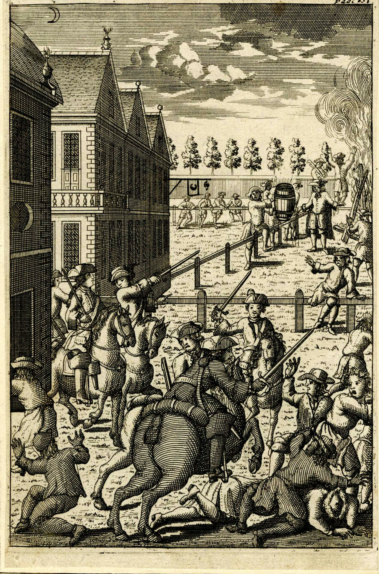 Satirical print The Whigs Unmask'd: Being the Secret History of the Calf's Head Club depicting a riot in Bloomsbury, London in 1712.